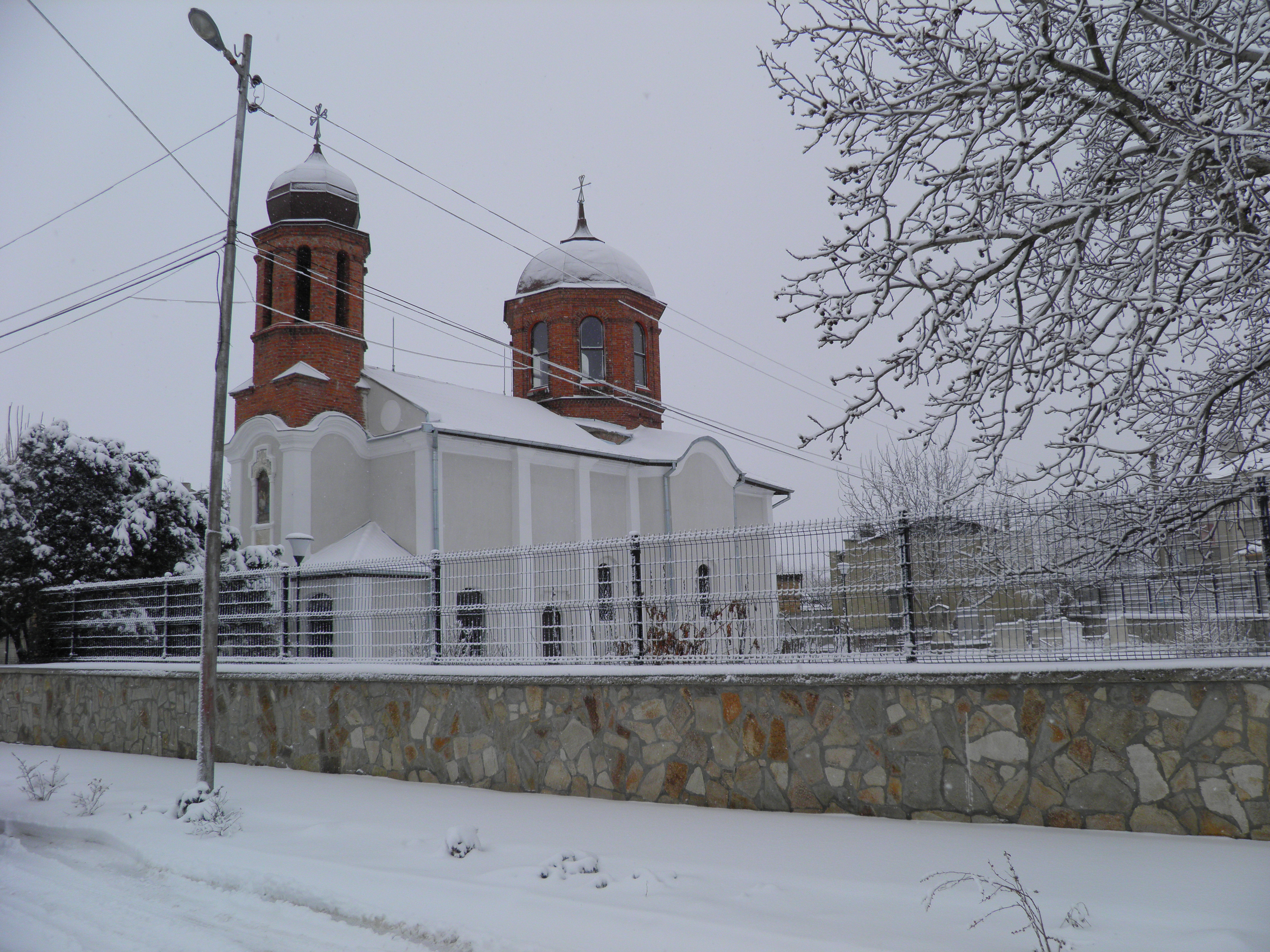 Church in Polski Trambesh